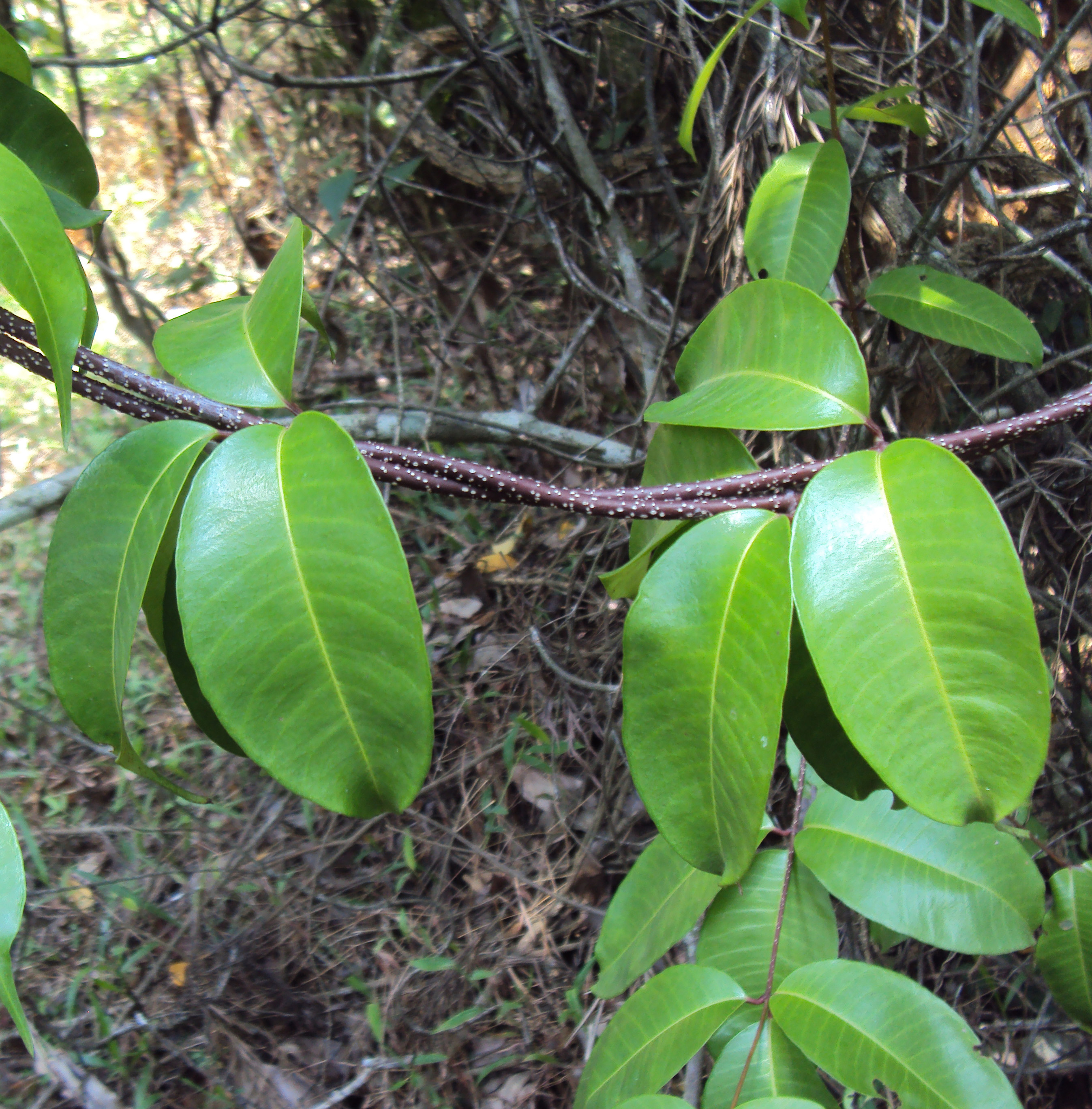 Kamettia caryophyllata